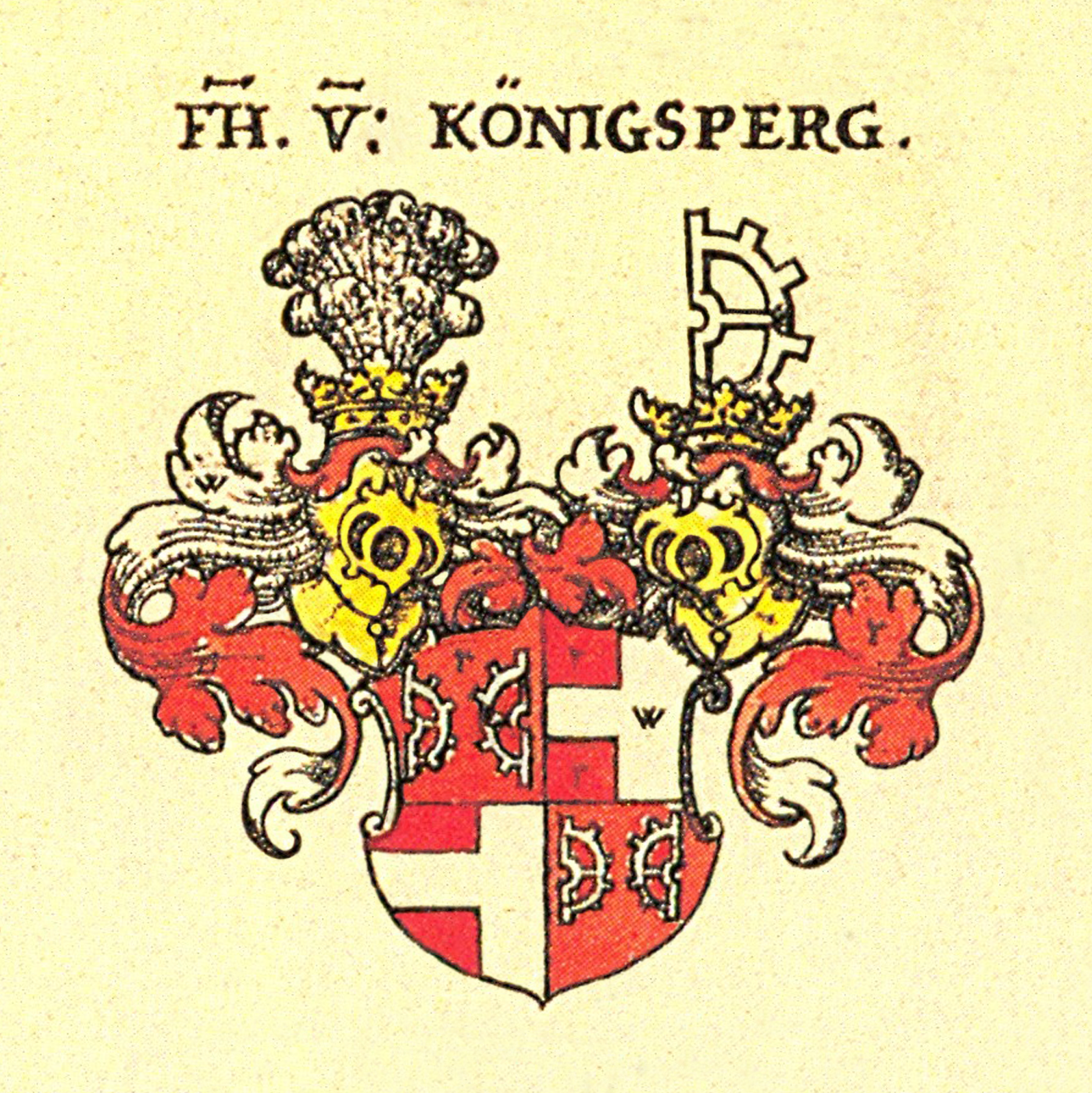 Coat of arms of Königsberg (Königsperg)